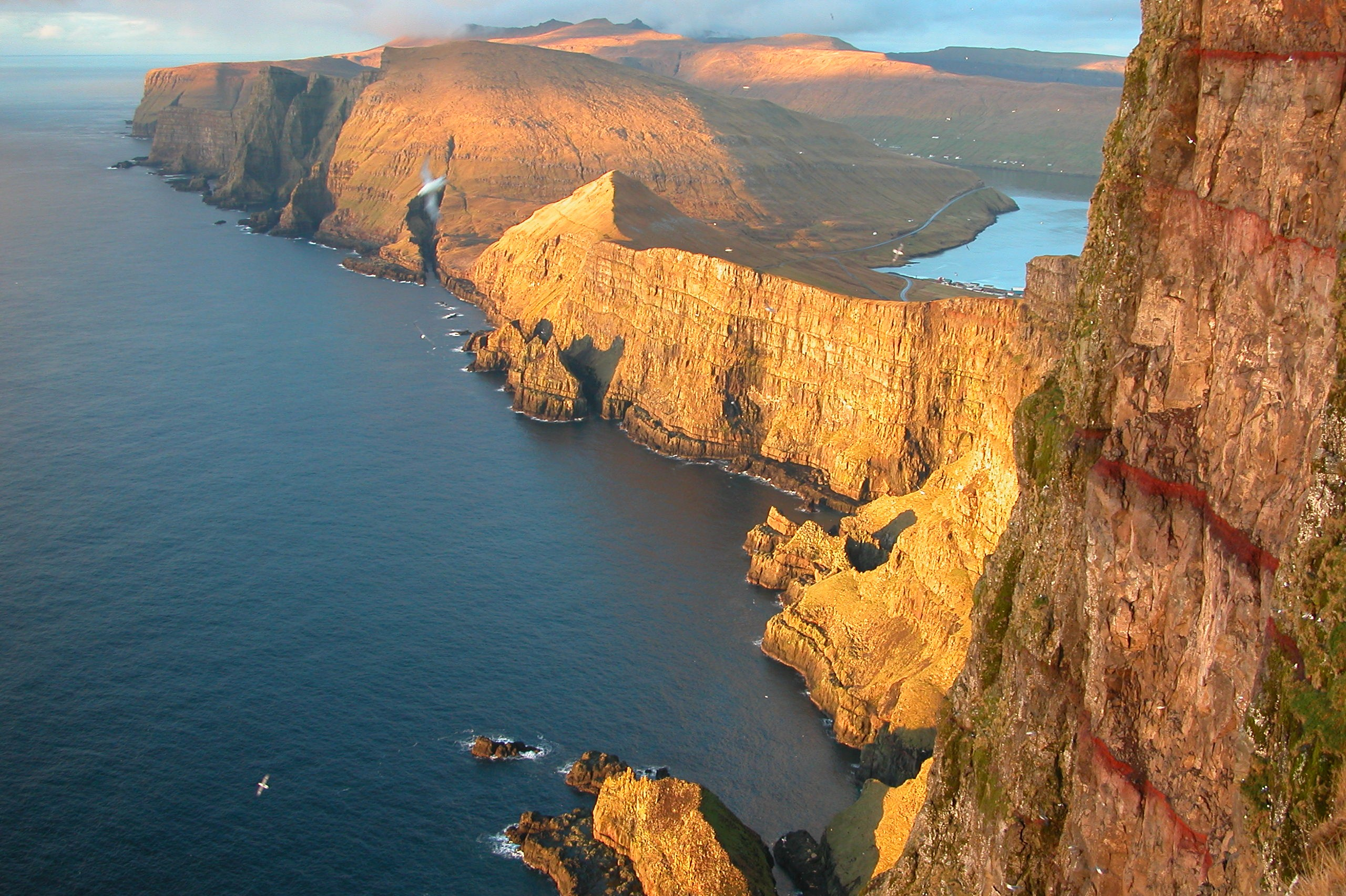 Westcoast Suðuroy - Faroe Islands